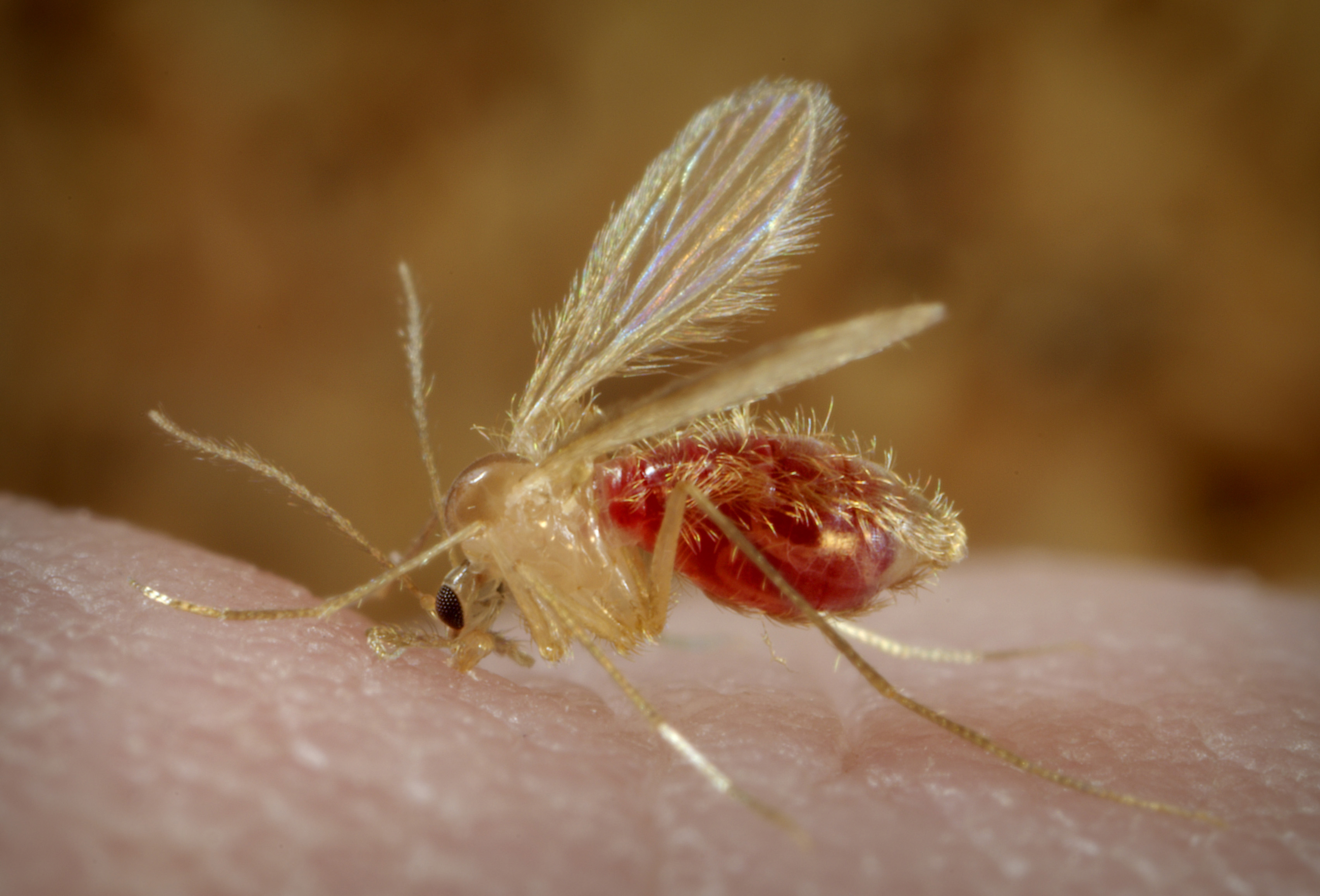 This photograph depicts a Phlebotomus papatasi sandfly, which had landed atop the skin surface of the photographer, who’d volunteered himself as host for this specimen’s blood meal. The sandflies are members of the Dipteran family, Psychodidae, and the subfamily Phlebotominae. This specimen was still in the process of ingesting its bloodmeal, which is visible through its distended transparent abdomen. Sandflies such as this P. papatasi, are responsible for the spread of the vector-borne parasitic disease leishmaniasis, which is caused by the obligate intracellular protozoa of the genus Leishmania.